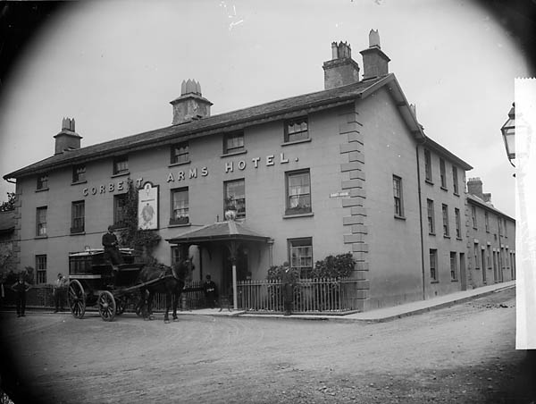 1 negative : glass, dry plate, b&w ; 16.5 x 21.5 cm.